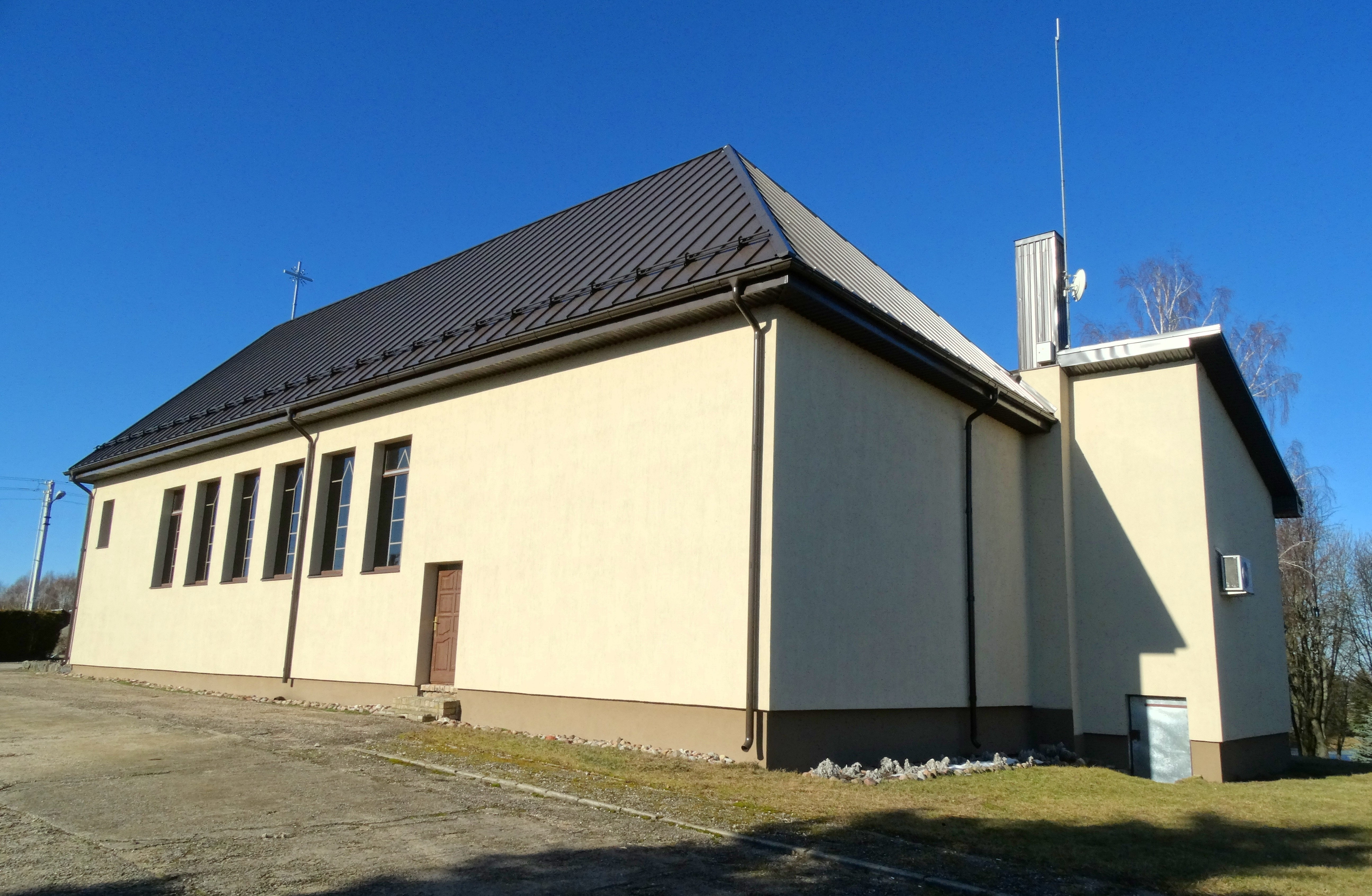 Chapel, Eičiūnai, Alytus district, Lithuania